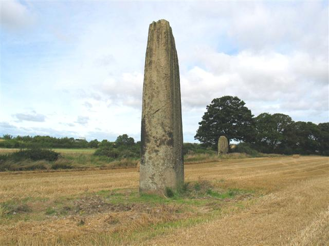 Devils Arrows, Boroughbridge.